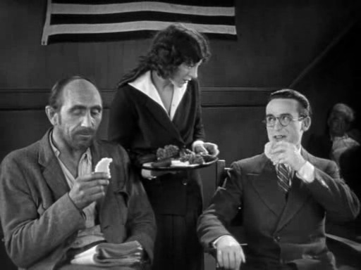 Jobyna Ralston and Harold Lloyd in the film For Heaven's Sake (1926, dir. Sam Taylor).